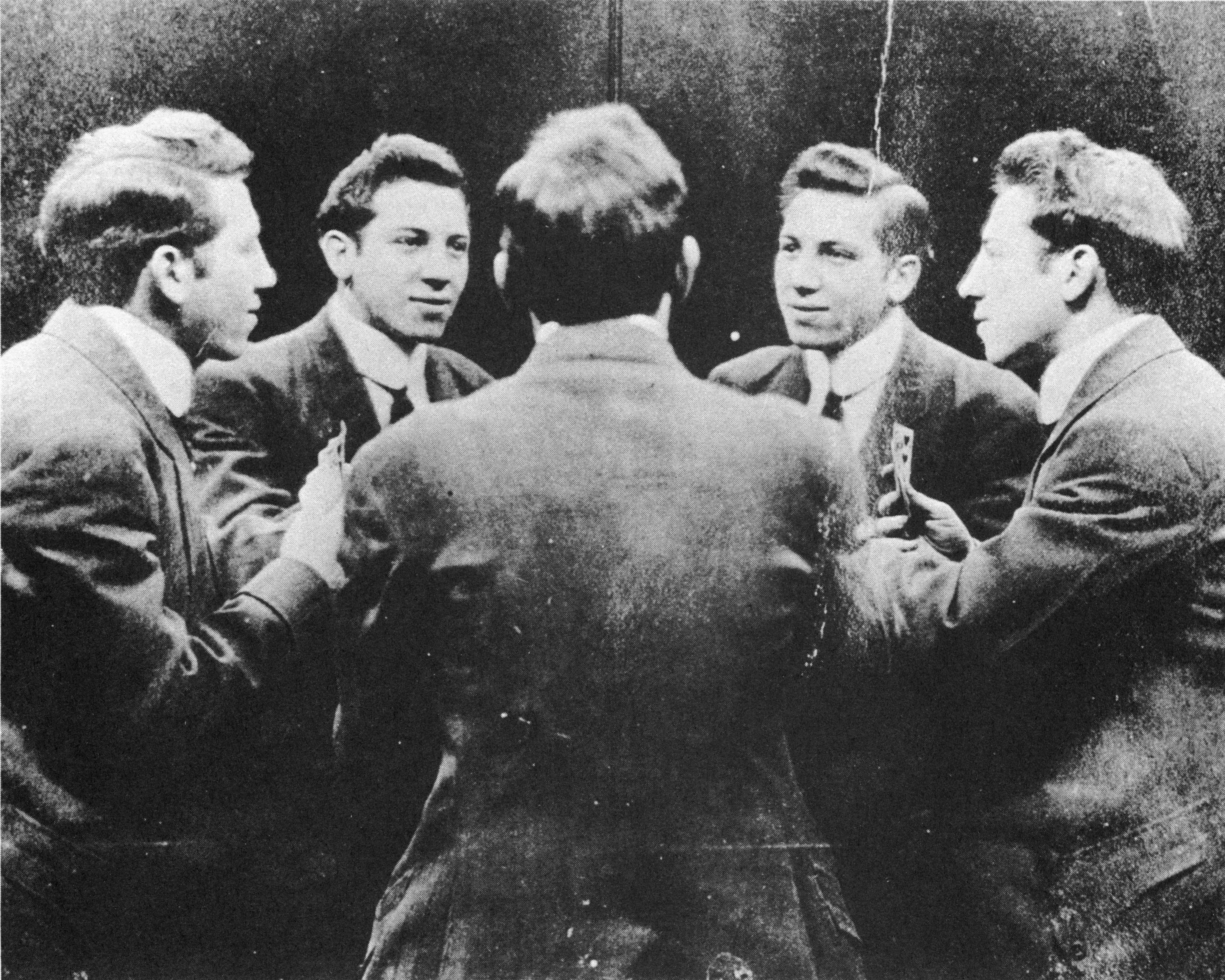 Chico Marx playing cards with himself. Taken at Rockaway Beach, New York circa 1909